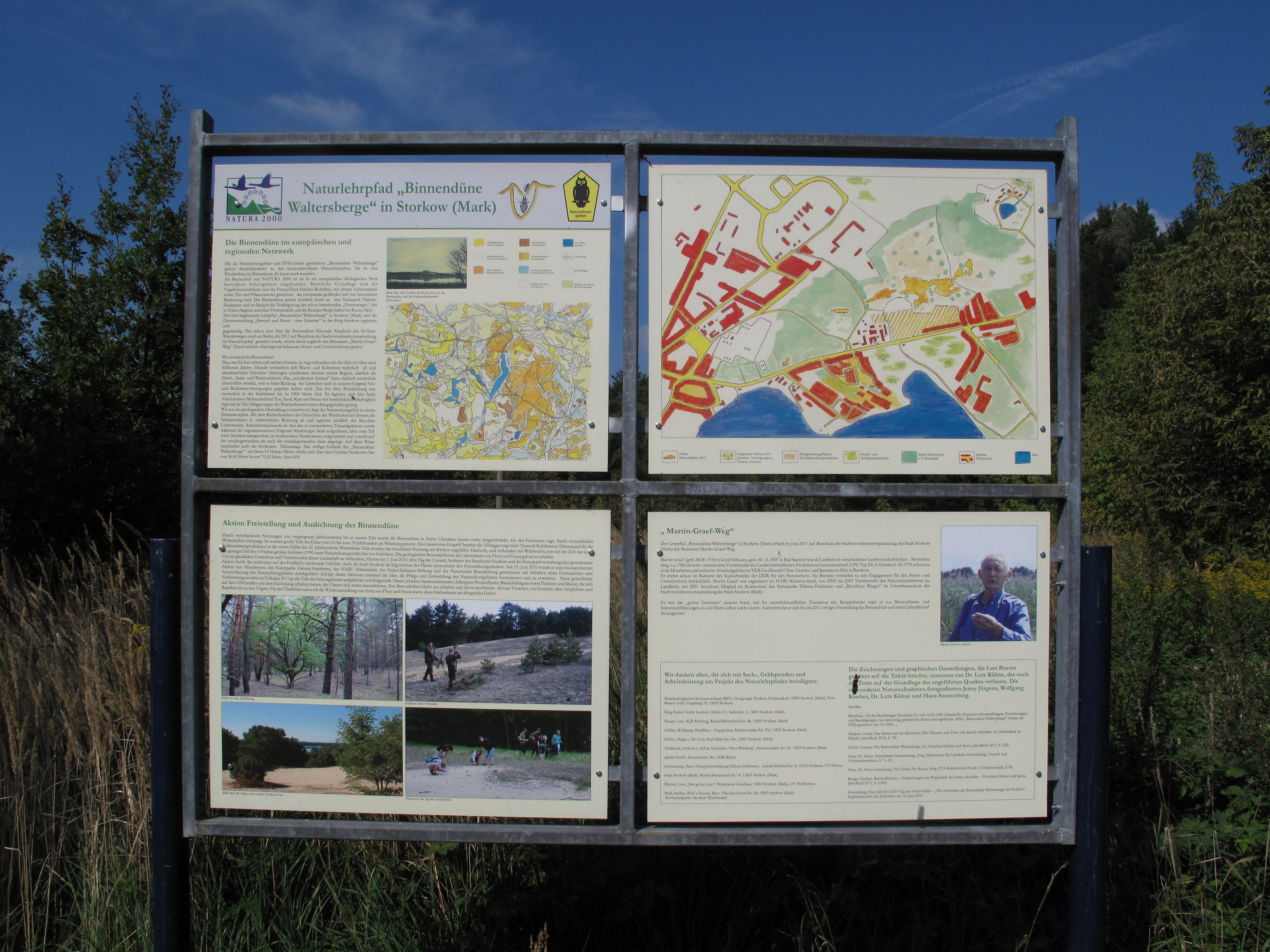 Information board of the educational path „Binnendüne Waltersberge in Storkow (Mark)“, placed in 2011. The „Binnendüne Waltersberge“ is one of the largest inland dunes in Brandenburg, Germany. The dune is situated in the town Storkow, District Oder-Spree, just over the eastern border of the Dahme-Heideseen Nature Park. The centre of the area, which covers about 14 hectare, is designated as a Naturschutzgebiet (protected area) and Natura 2000-area. Nearly just beside the northern bank of the Großer Storkower See (lake), rises above the dune with its largest peak, the Storkower Weinberg (69 metres), up to 32 metres over the sea.